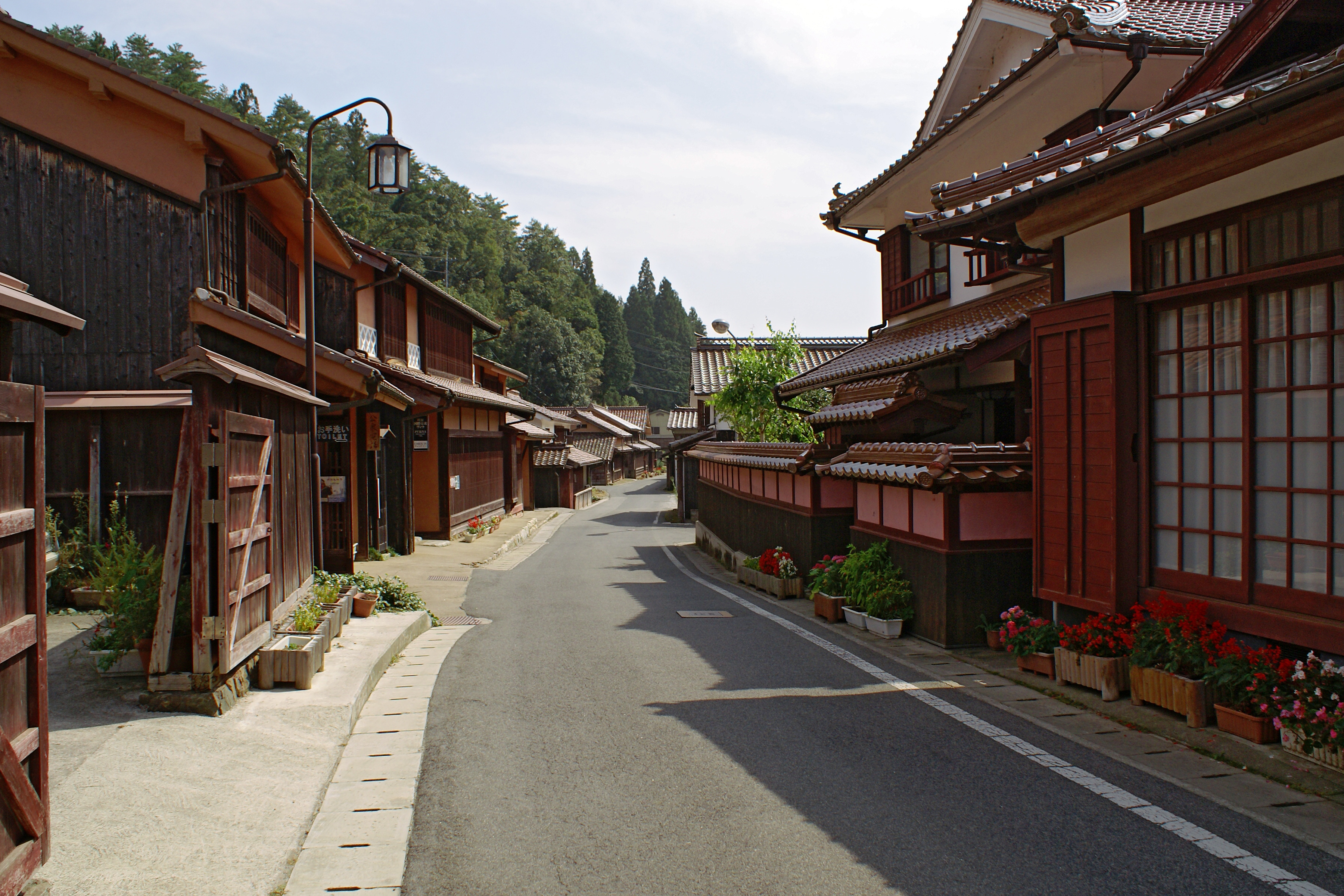 Fukiya in Takahashi, Okayama prefecture, Japan